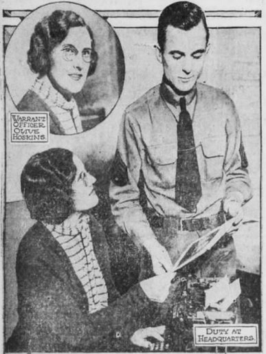 Olive Hoskins on duty in January of 1933